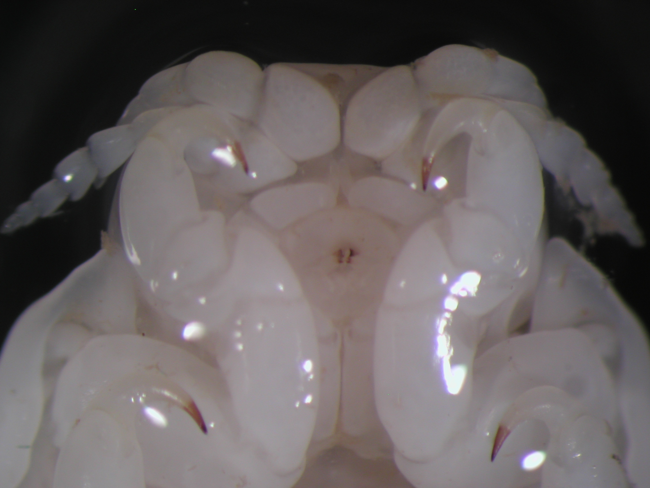 Ventral view of the head of the adult female of Ceratothoa oestroides (credit Ivona Mladineo)